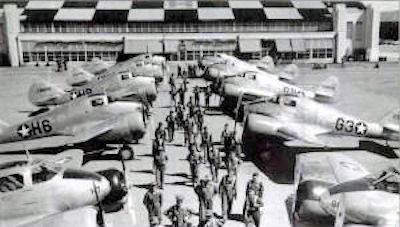 Curtiss-Wright AT-9 Randolph Field TX during World War II